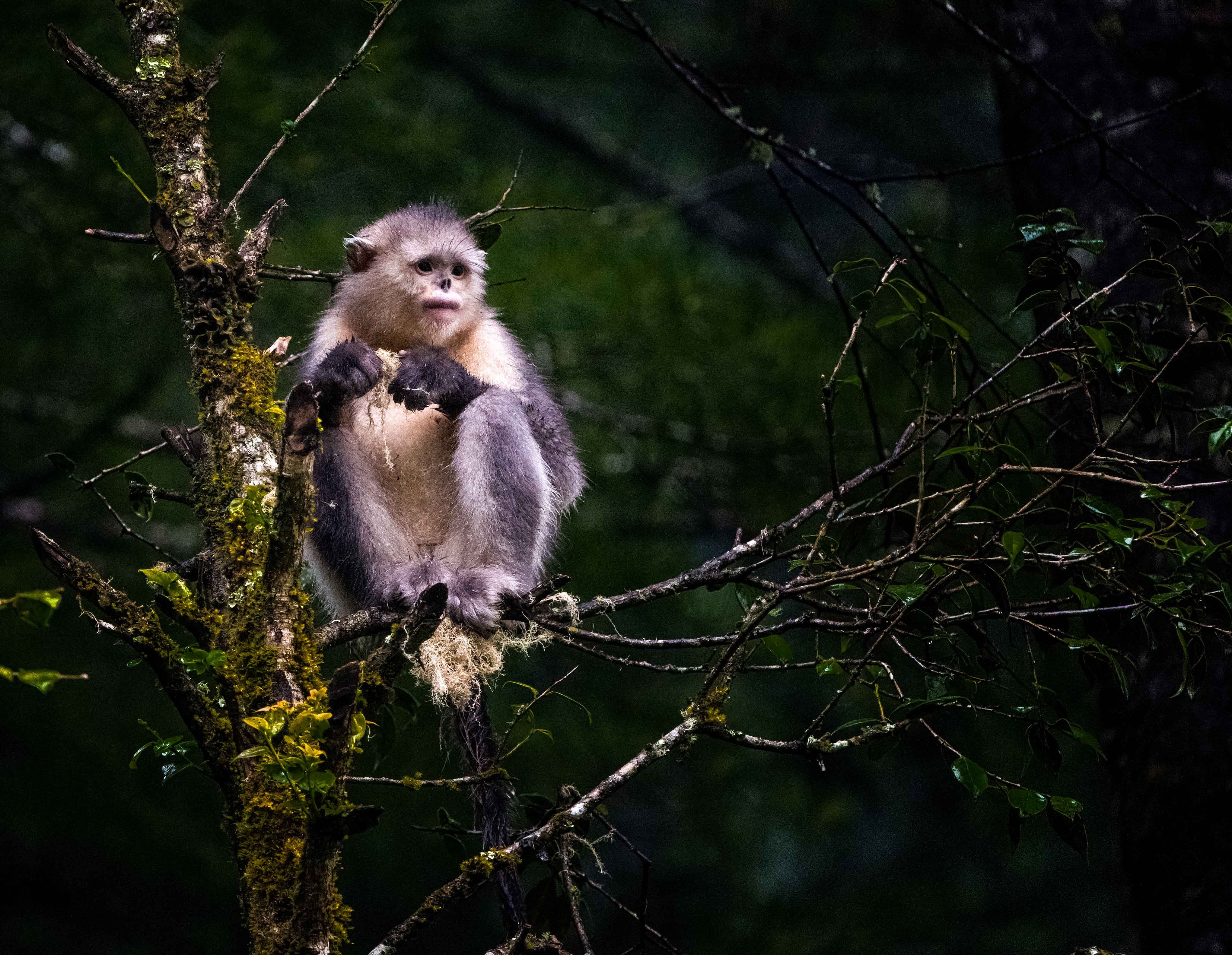 Black Snub-nosed Monkey in Yunnan, China.